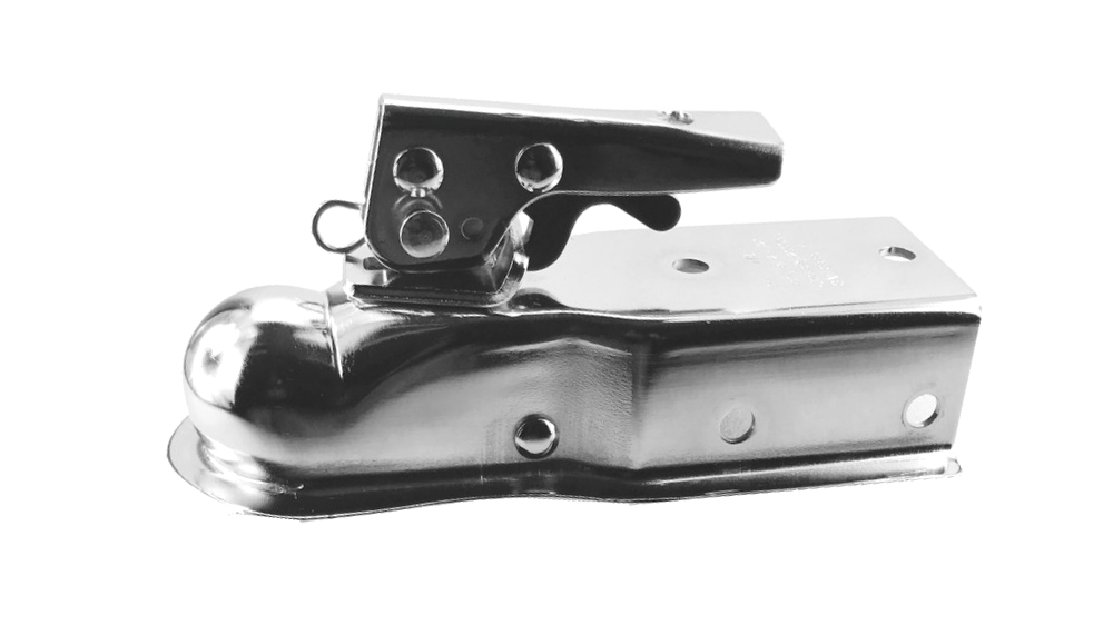 This is an image of a traditional ball coupler for use with a motorcycle trailer.